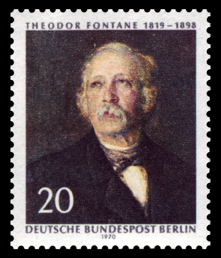 150 years of birth of Theodor Fontane (1819-1898) Graphics by Bundesdruckerei Berlin Ausgabepreis: 20 Pfennig First Day of Issue / Erstausgabetag: 7. Januar 1970 Michel-Katalog-Nr: 353 (Berlin)